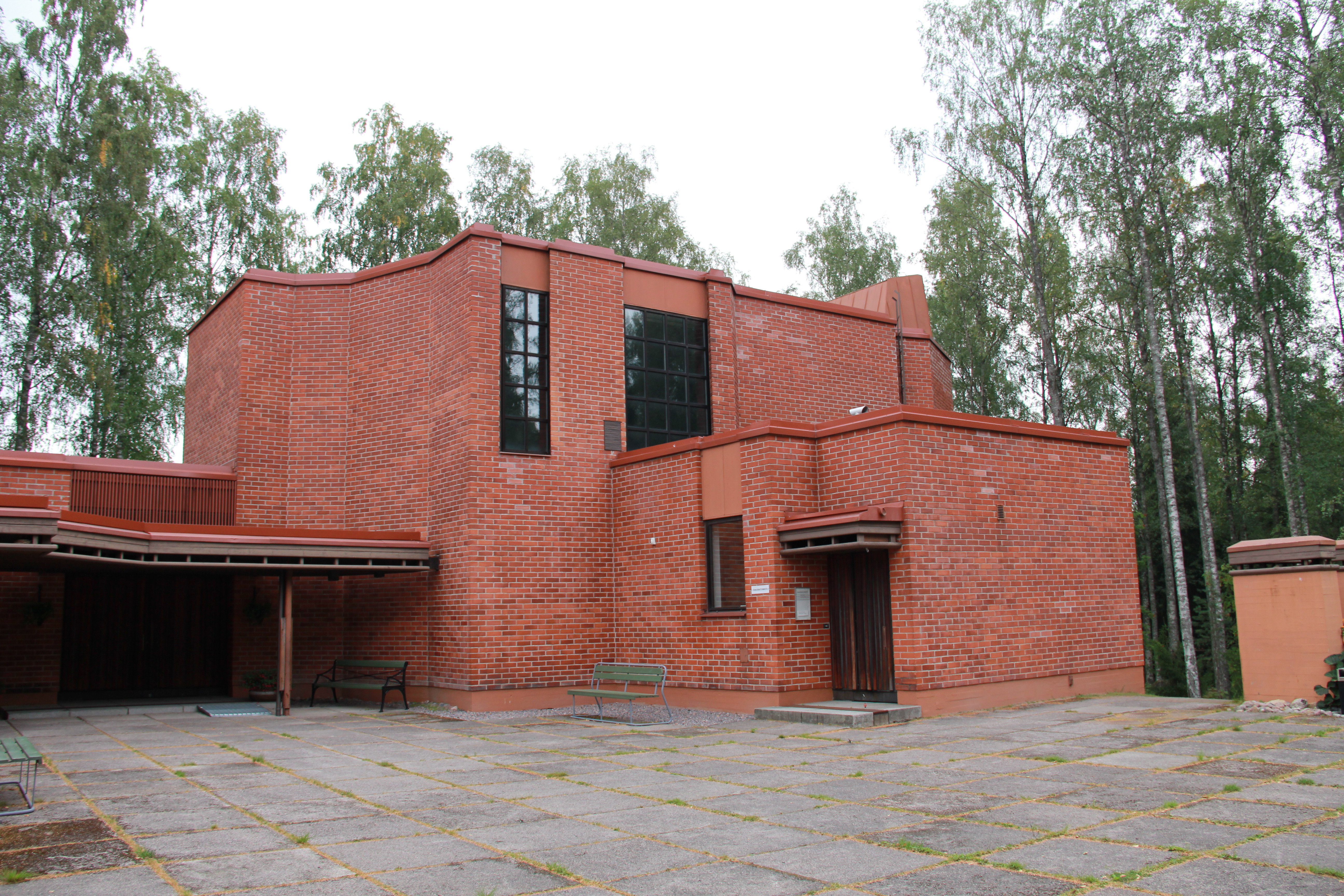 Kivistö church, Vantaa, Finland. Designed by architects Raili and Kalevi Hietanen, completed in 1967. Photo taken from the inner yard.